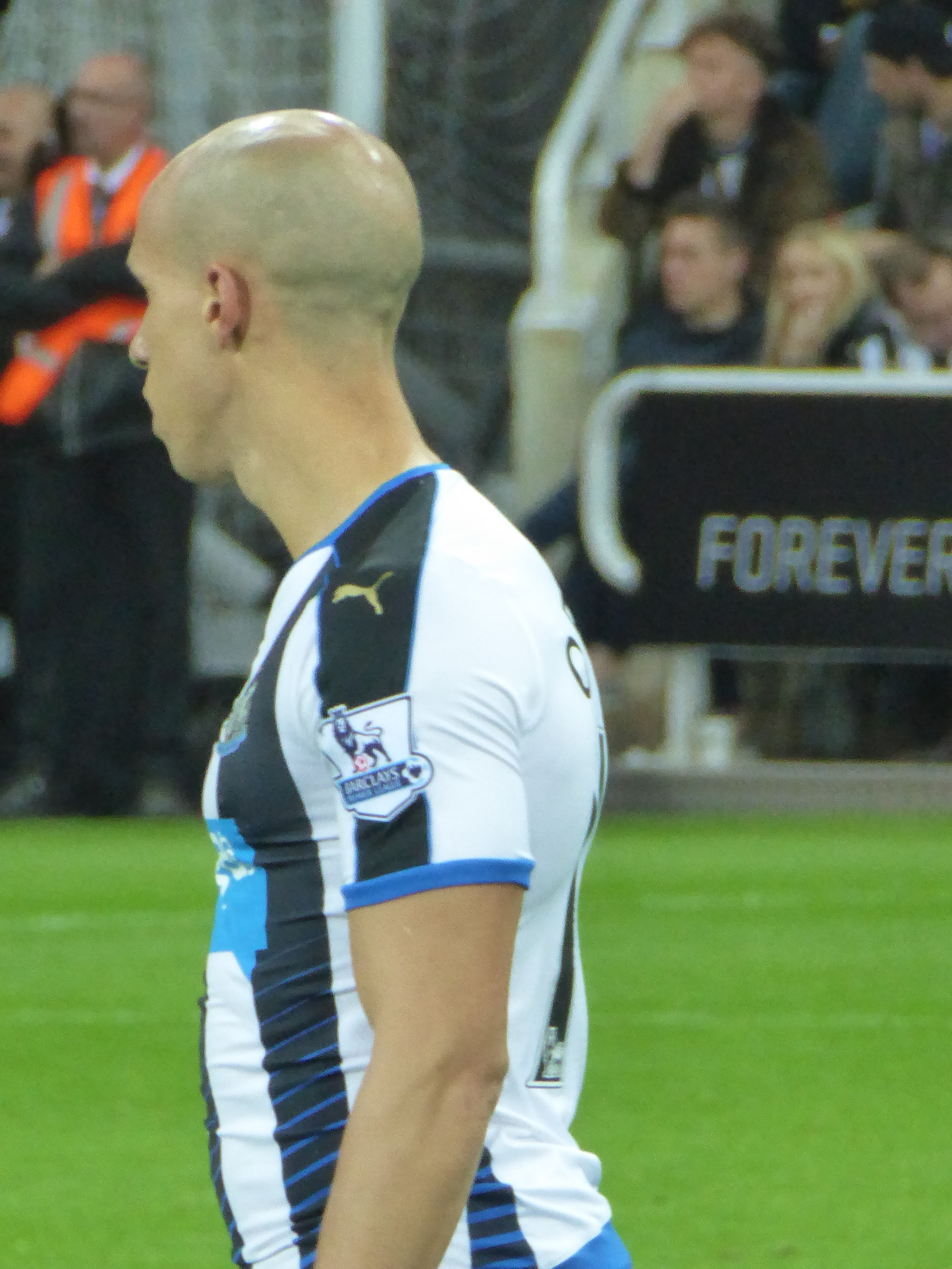 Newcastle United vs Sheffield Wednesday (0-1), Capital One Cup Third Round, St James' Park, Newcastle upon Tyne, Tyne and Wear, England, September 2015